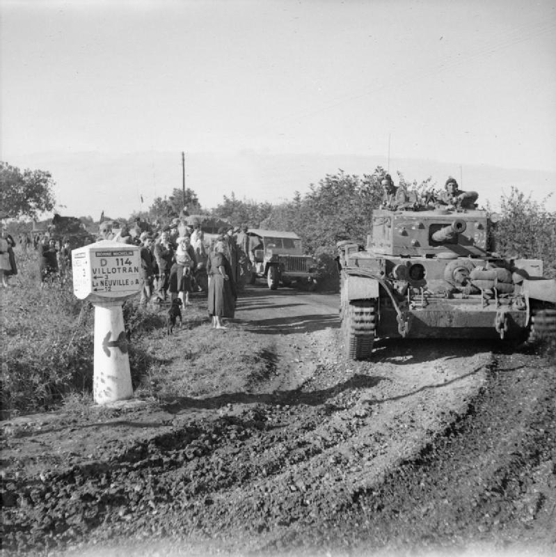 The British Army in North-west Europe 1944-45 French civilians watch a Cromwell tank and other vehicles of 2nd Welsh Guards during the advance of Guards Armoured Division, 31 August 1944.